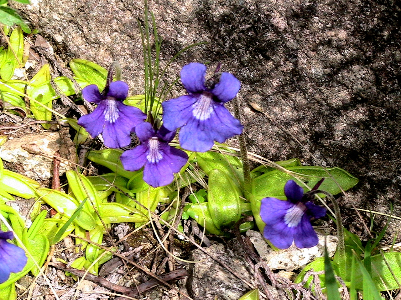 Pinguicula grandiflora. In Cabdella (Pallars Jussà - Catalunya. To 2.145 m altitude